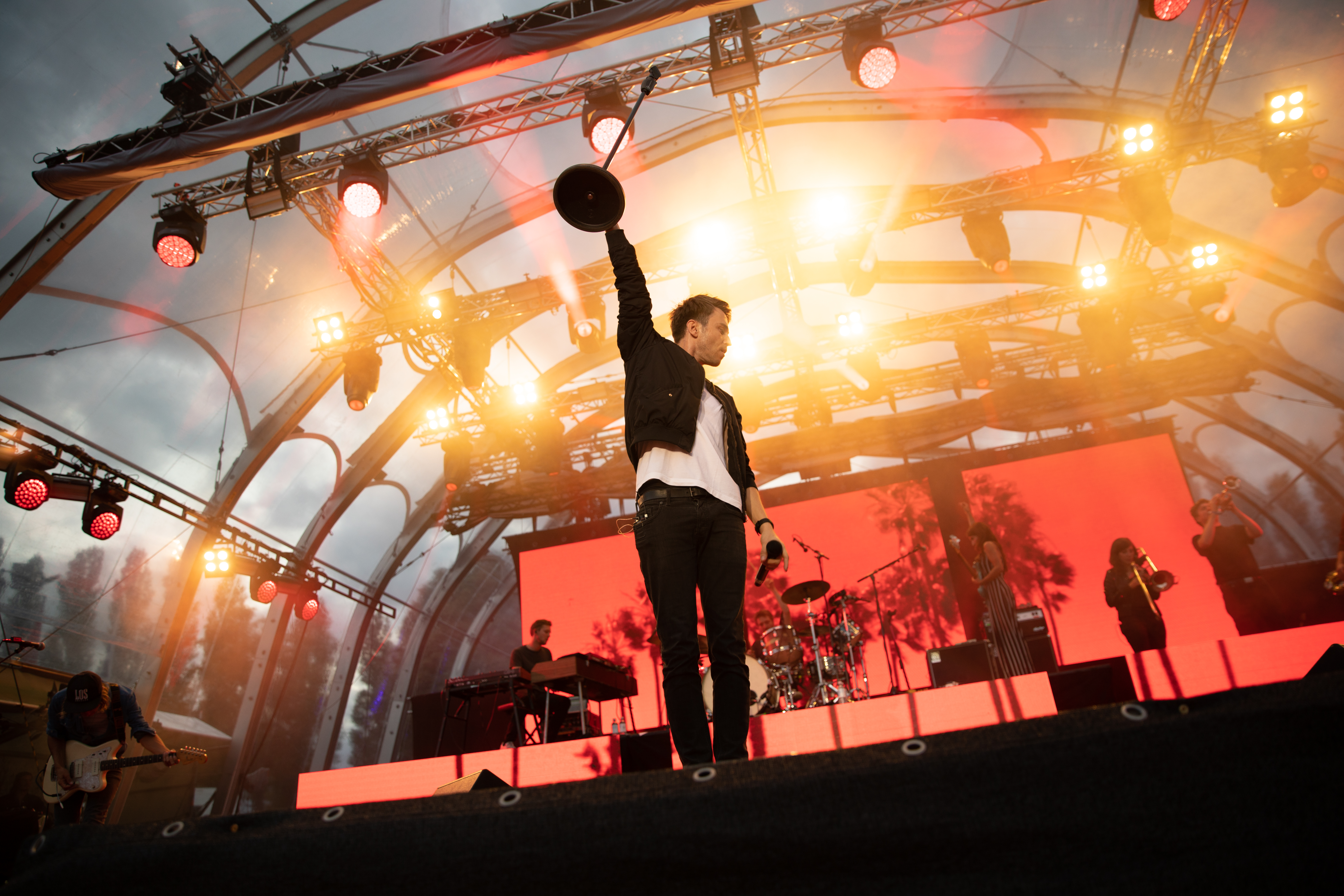 Clueso at Fritz DeutschPoeten 2018